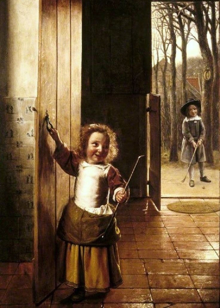 The Golf Players, oil on panel, 63.5 x 46.4 cm, National Trust Inventory Number 1246485, Polesden Lacey, Surrey